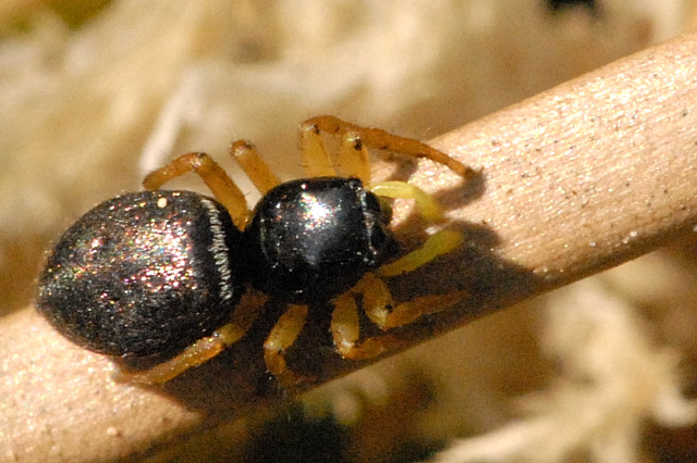 Heliophanus flavipes from Commanster, Belgian High Ardennes .